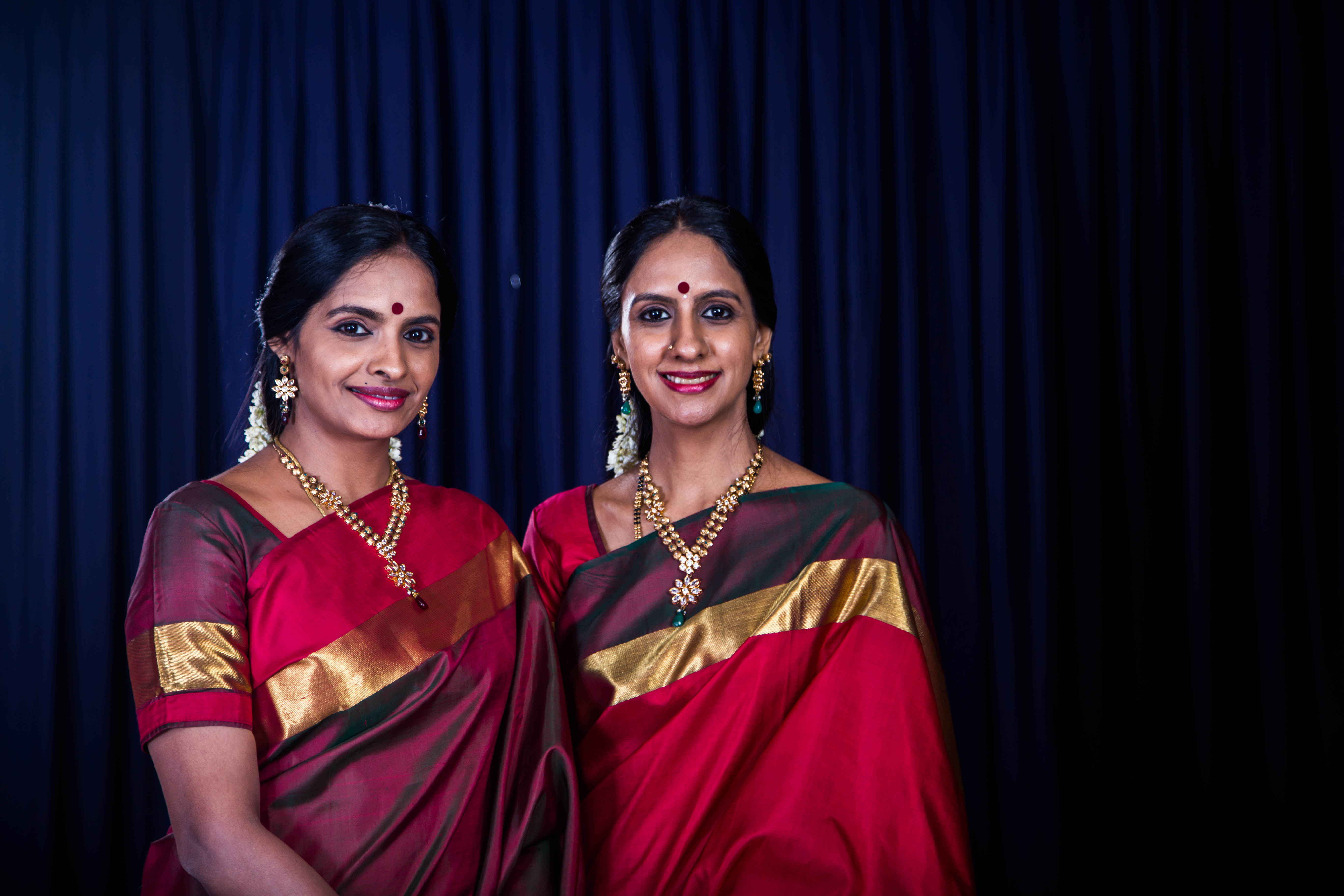 Ranjani Gayatri's photo taken circa 2015.